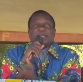 Vice precident of Zimbabwe, Mnangagwa Speaking in Headlands on Didymus Mtasa 4 June 2015